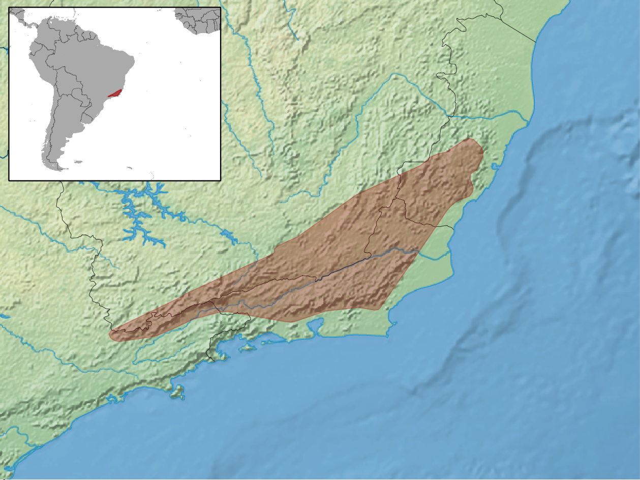 geographic distribution of Trinomys gratiosus